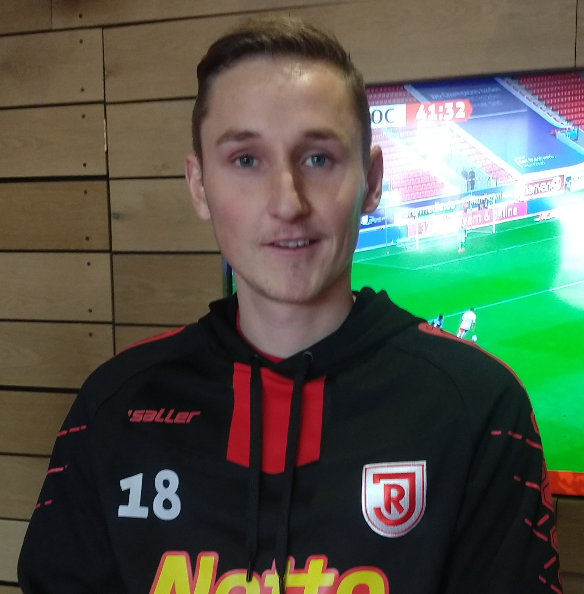 Football player Marc Lais on 11 December 2019 in the Jahn fan shop in Regensburg